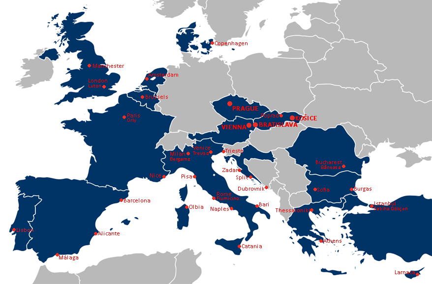 Sky Europe destinations (hubs in bold capitals)